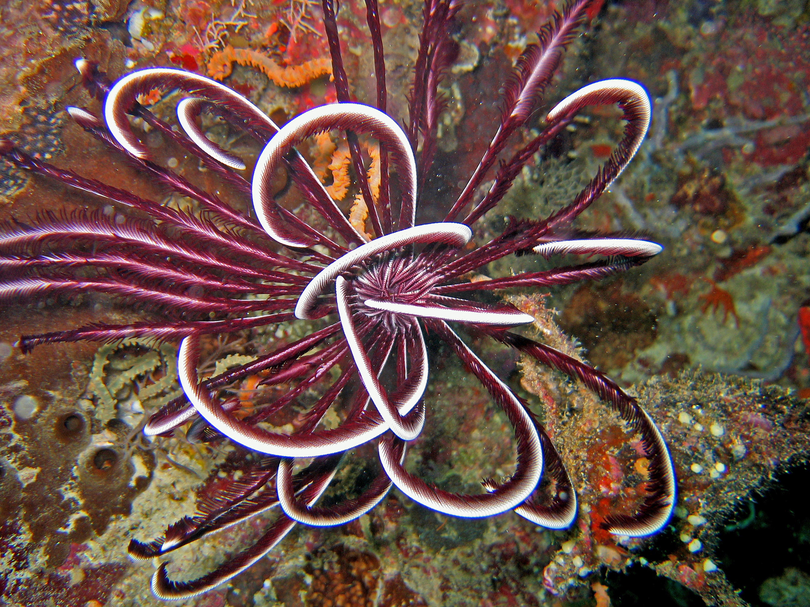 Cenometra bella in Maldives